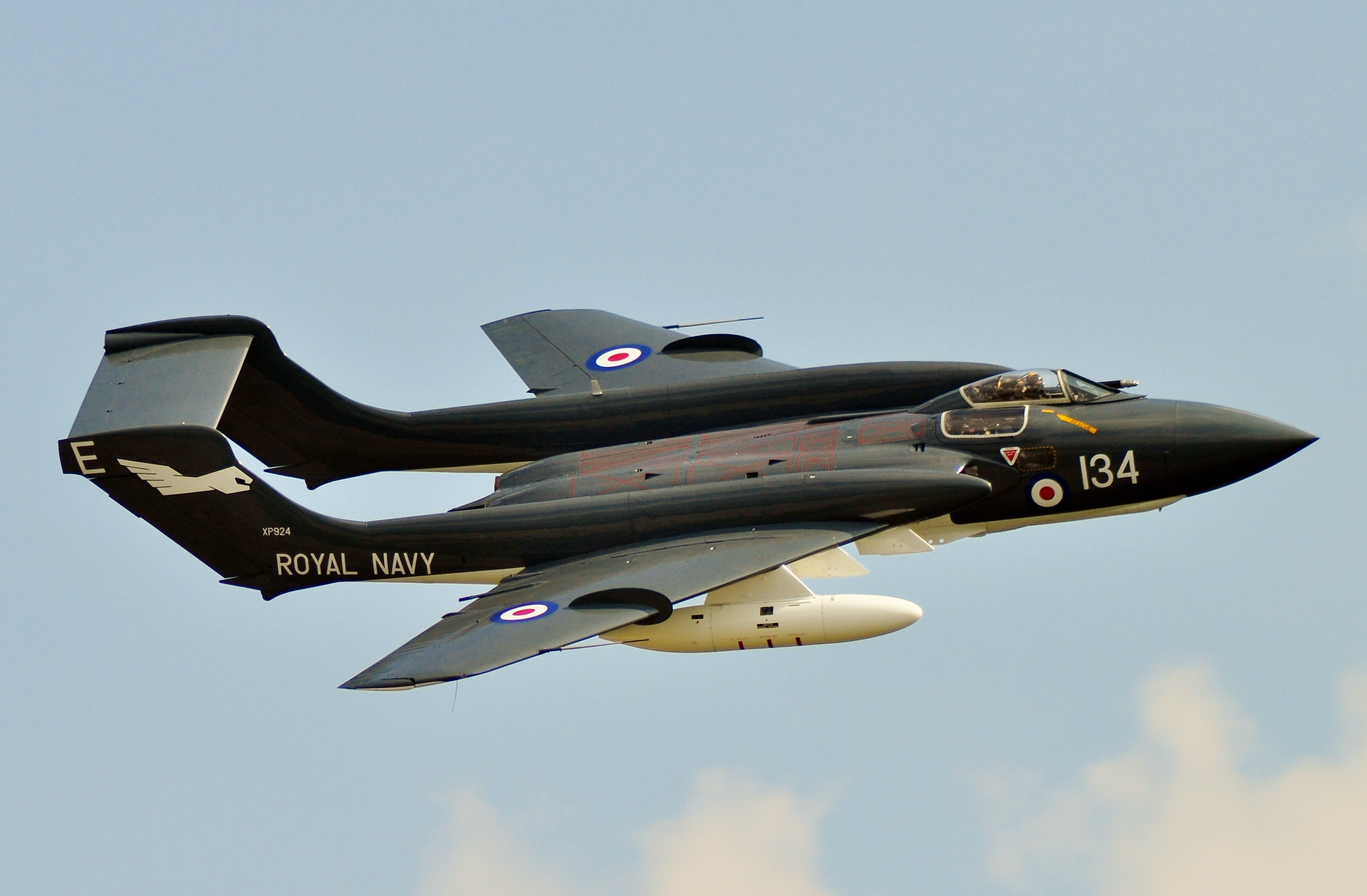 Sea Vixen, XP924, performing a 'photo' pass for the 'official' hand-over to the Fly Navy Heritage Trust at RNAS Yeovilton.